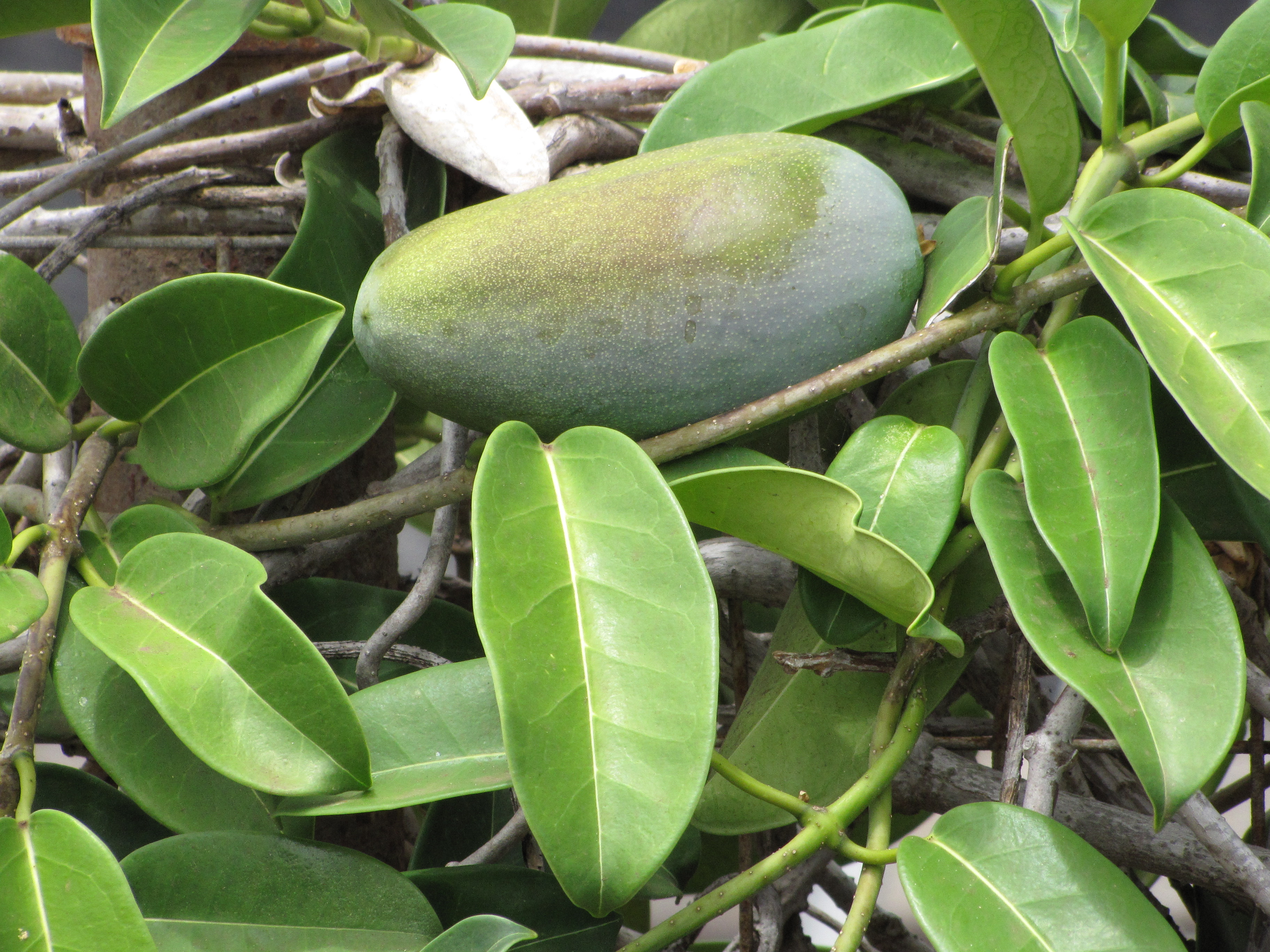 Marsdenia floribunda (Stephanotis, Madagascar jasmine, pua male) Leaves and fruit at Wailuku, Maui, Hawaii. July 20, 2009 #090720-3119 Image Use Policy Also known as Stephanotis floribunda.